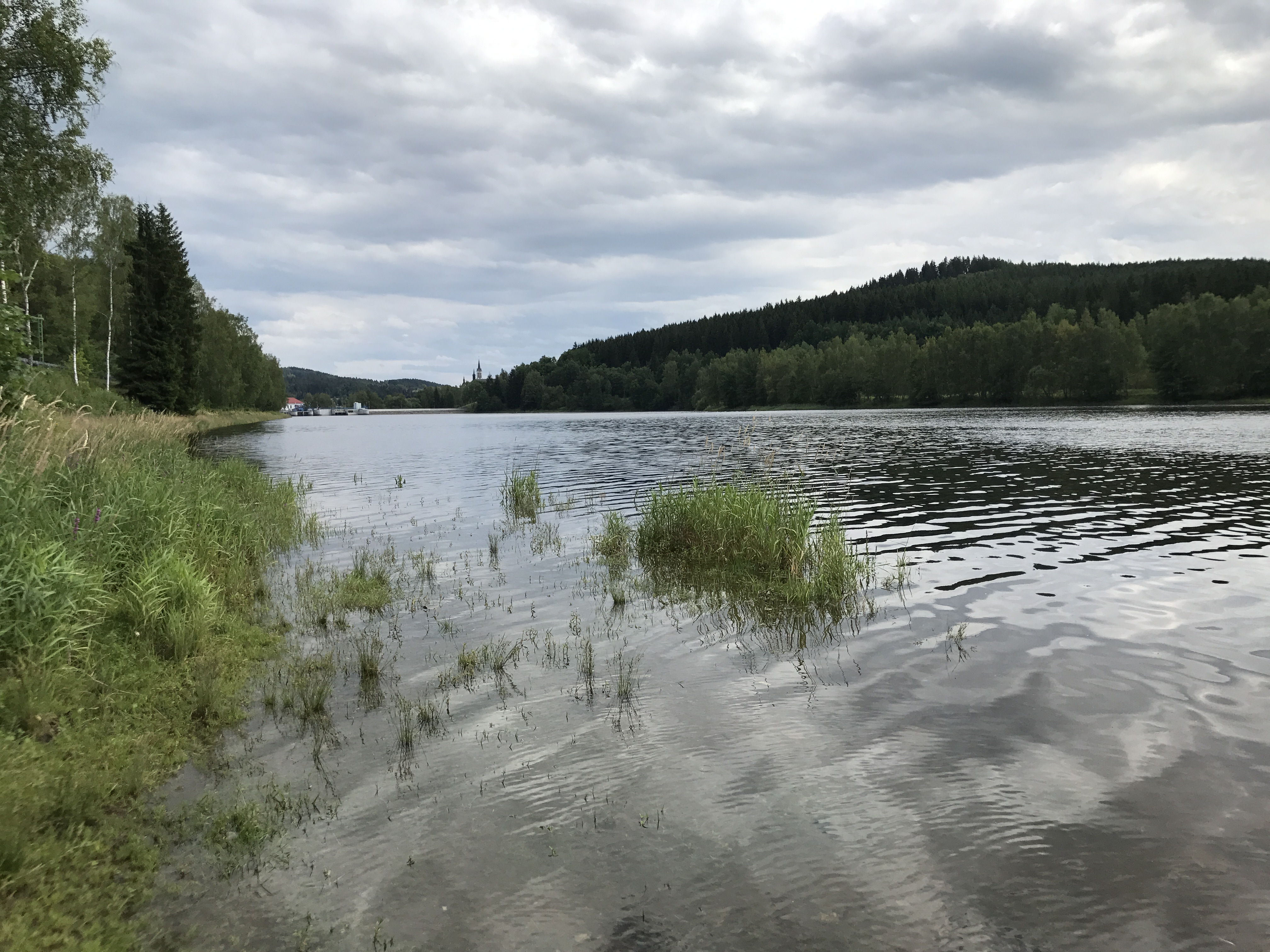 Lipno II Reservoir from the left coast